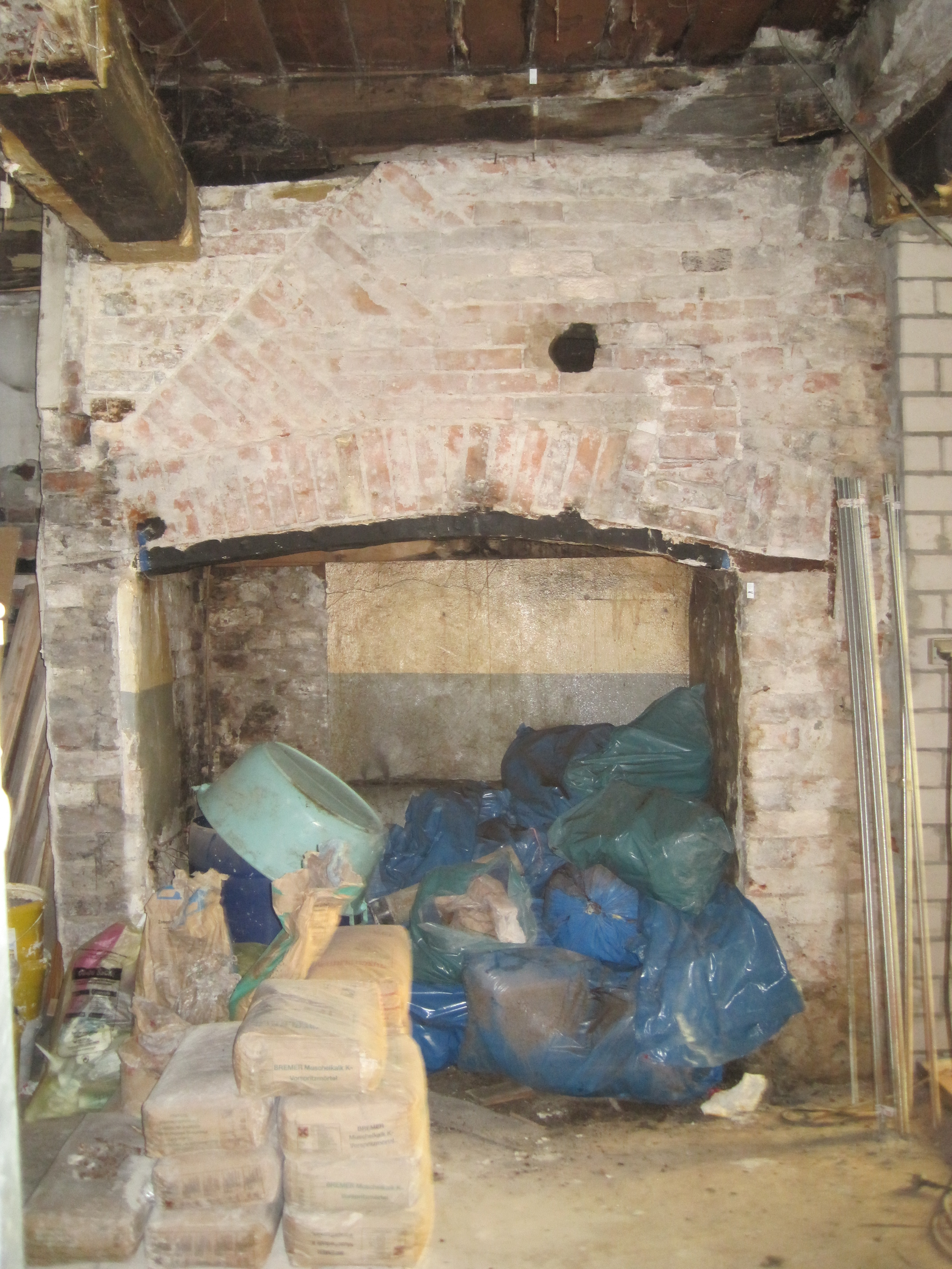 Hinter der Burg 15 in Lübeck